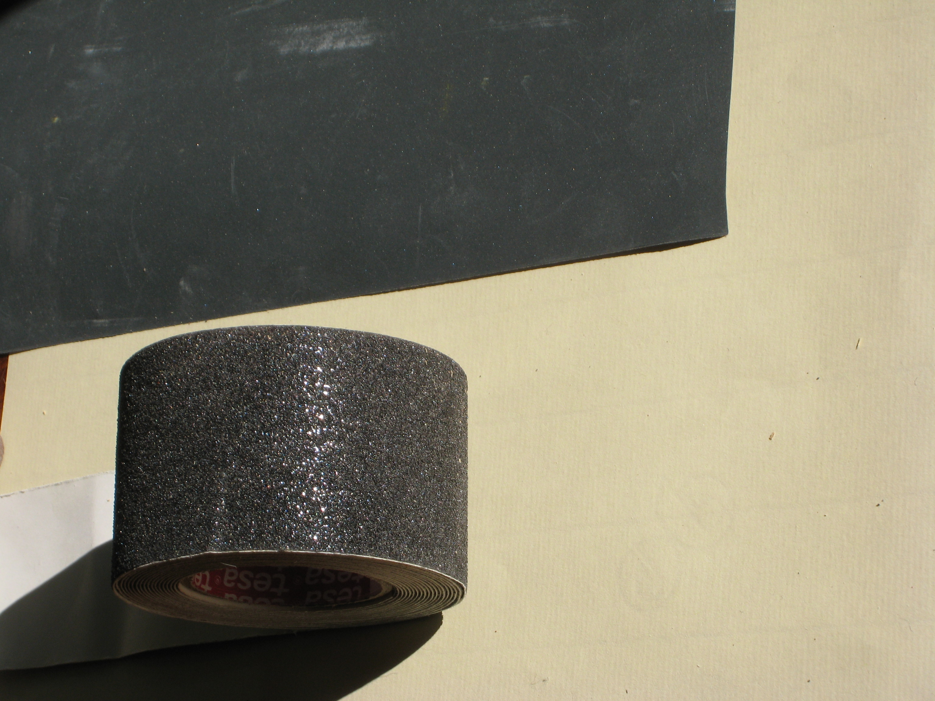 Sandpaper